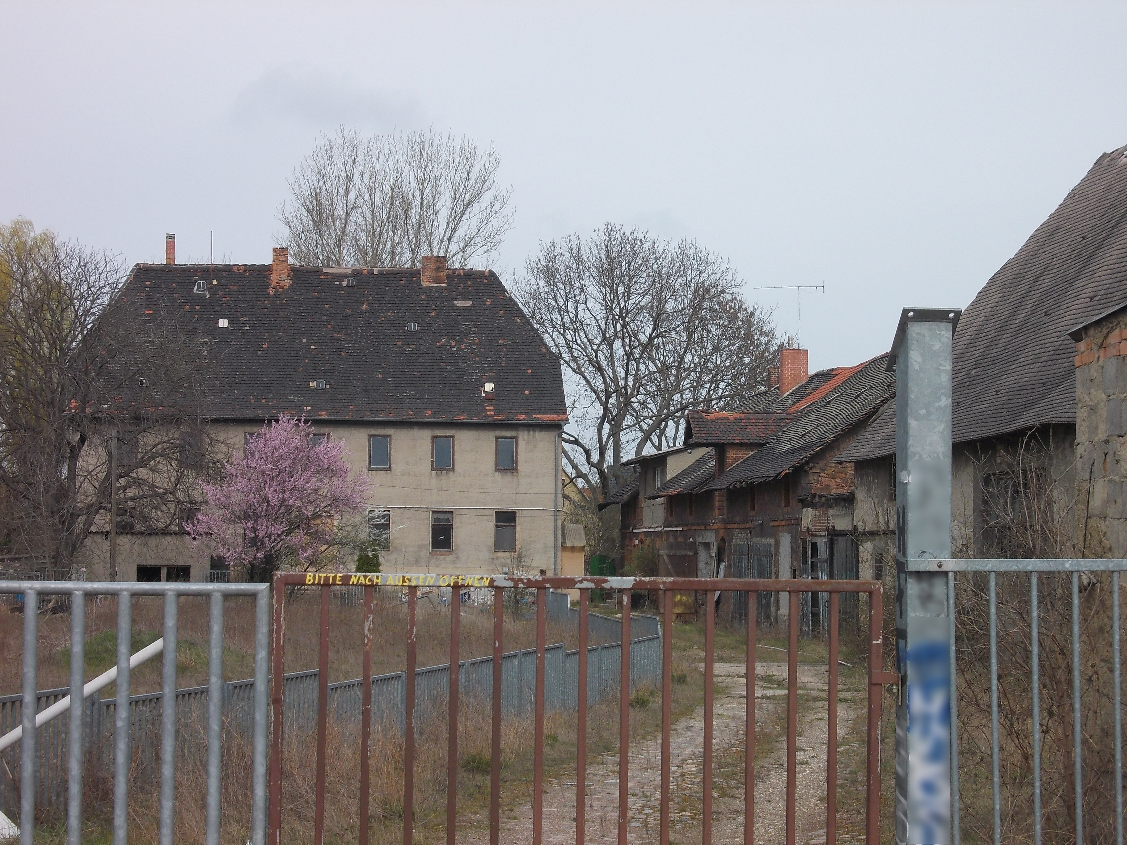 Kanena estate (Halle/Saale, Saxony-Anhalt)